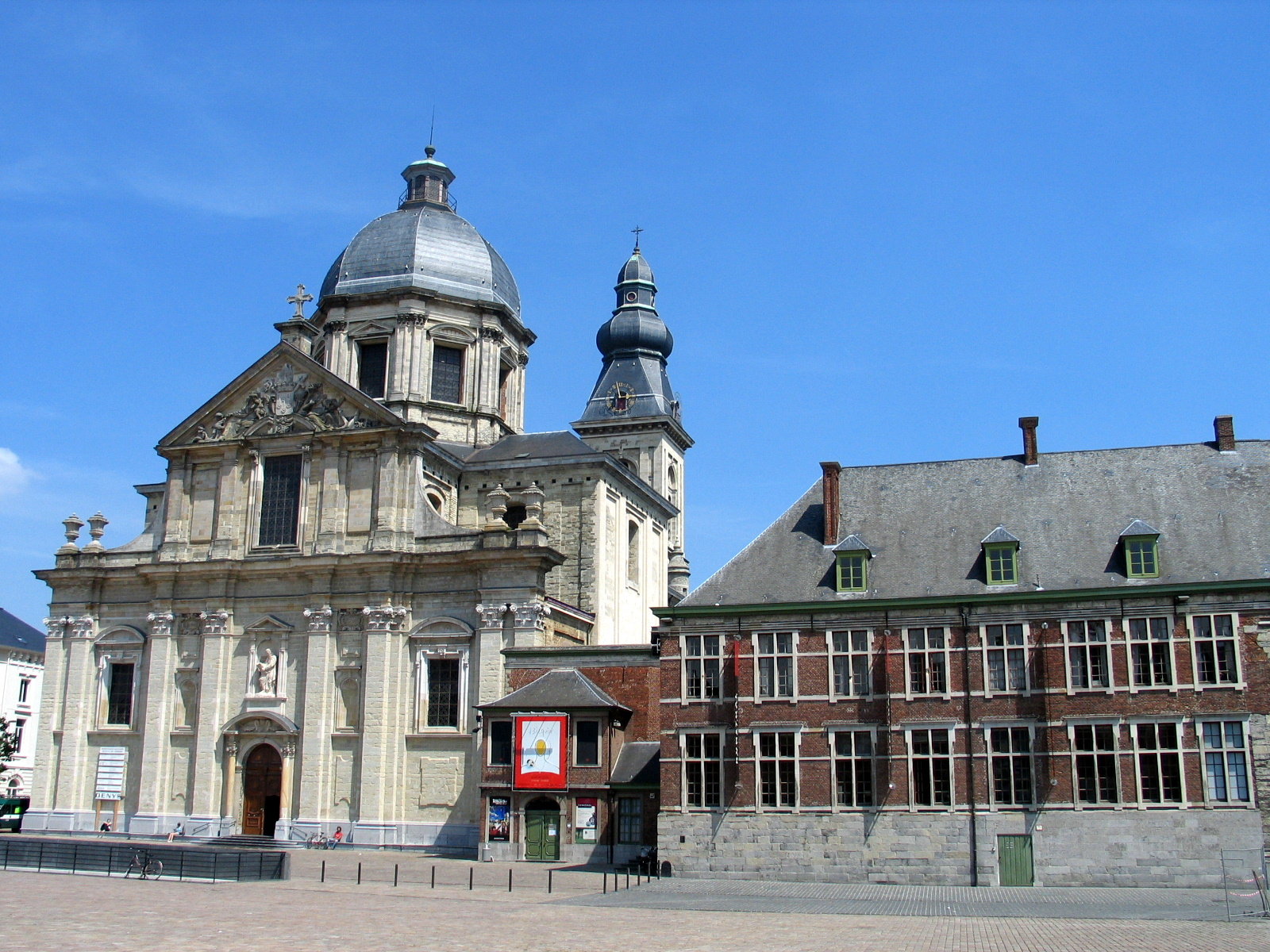 Church of Our Lady and St Peter and the Saint Peter abbey in Ghent (België)